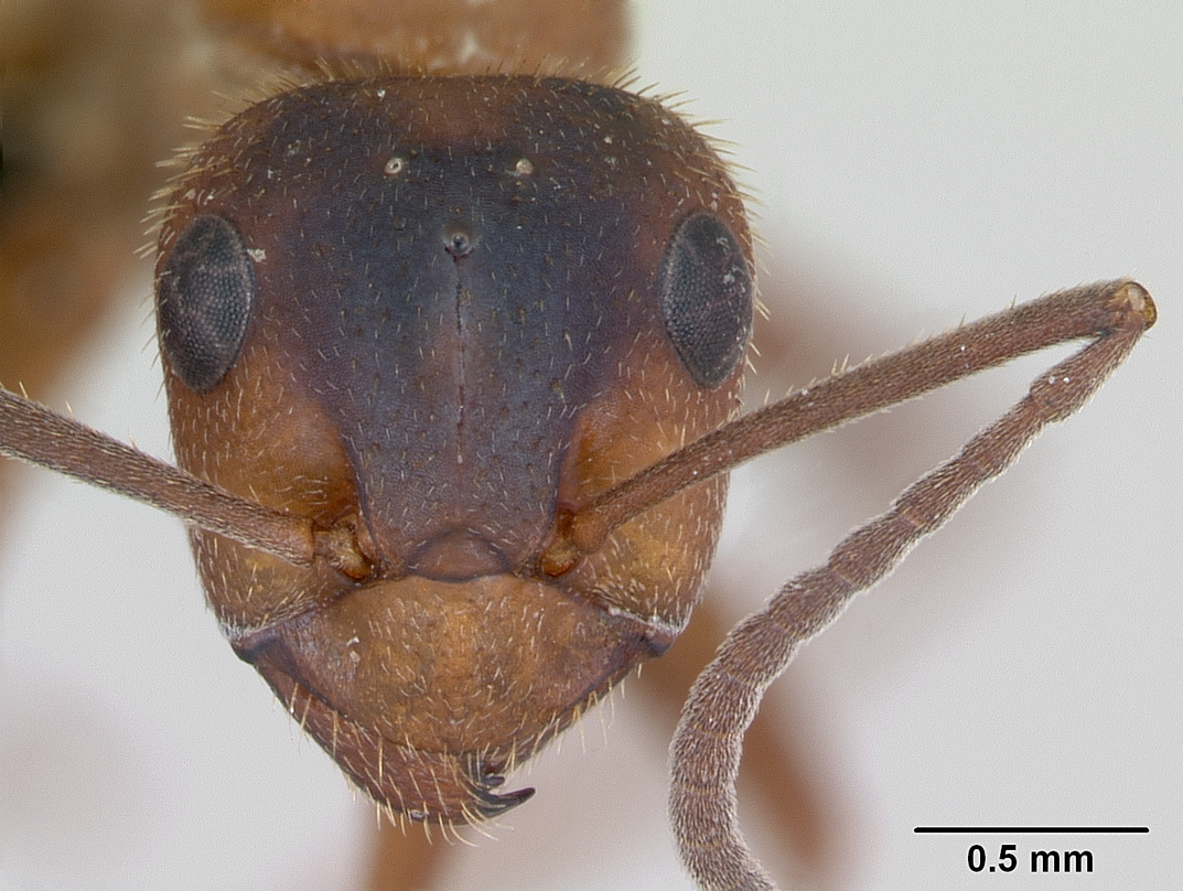 Head view of ant Formica truncorum specimen casent0173144.